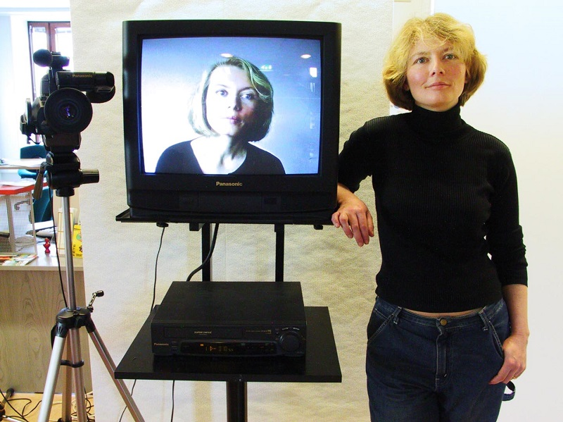 Exhibition view in Helsinki